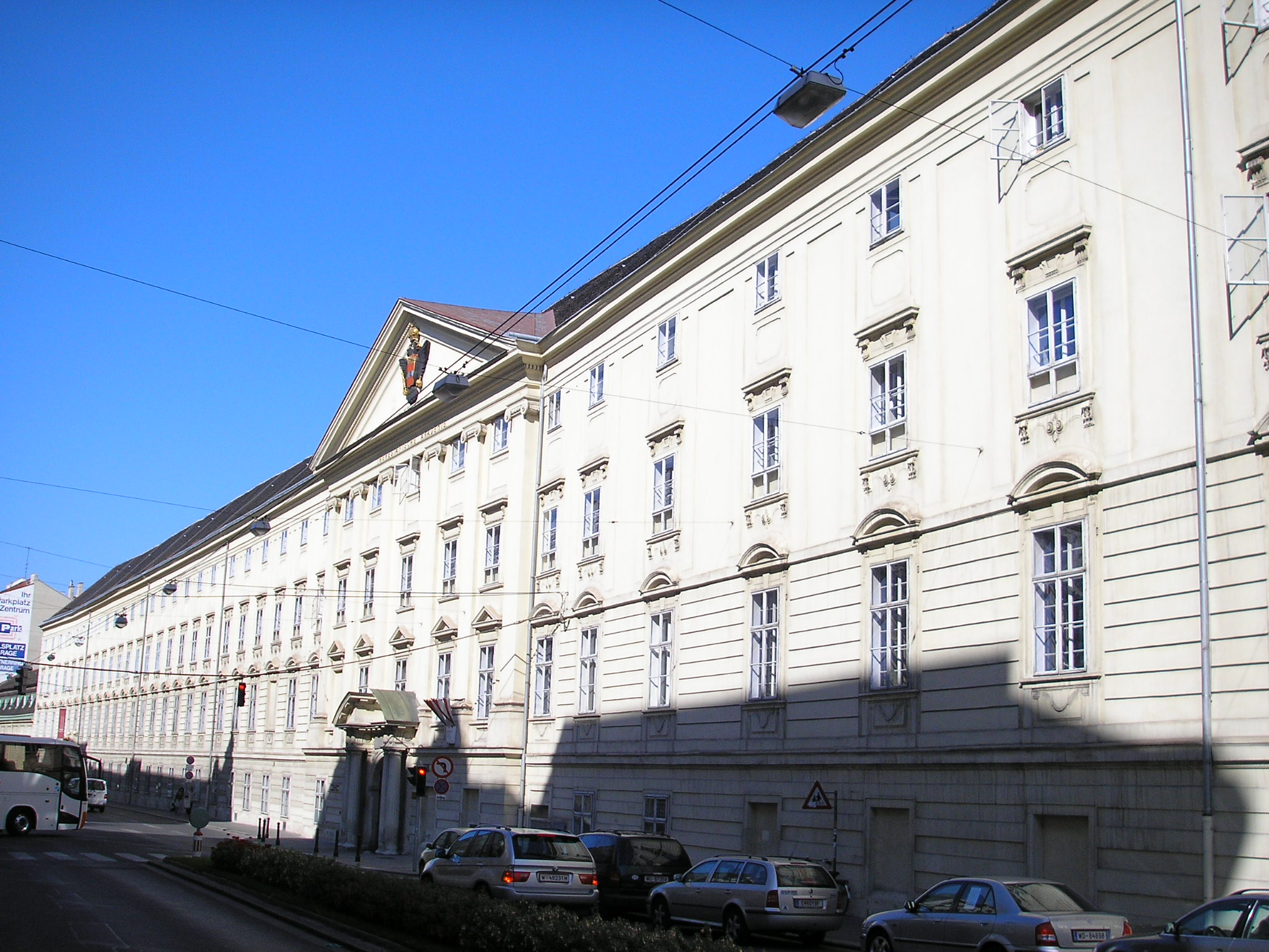 Image of the Alte Favorita palace, built for Empress Maria Theresia of Austria, today housing the elite Theresianum Gymnasium and the Diplomatic Academy of Vienna. Building is therefore sometimes also known generally as Theresianum.